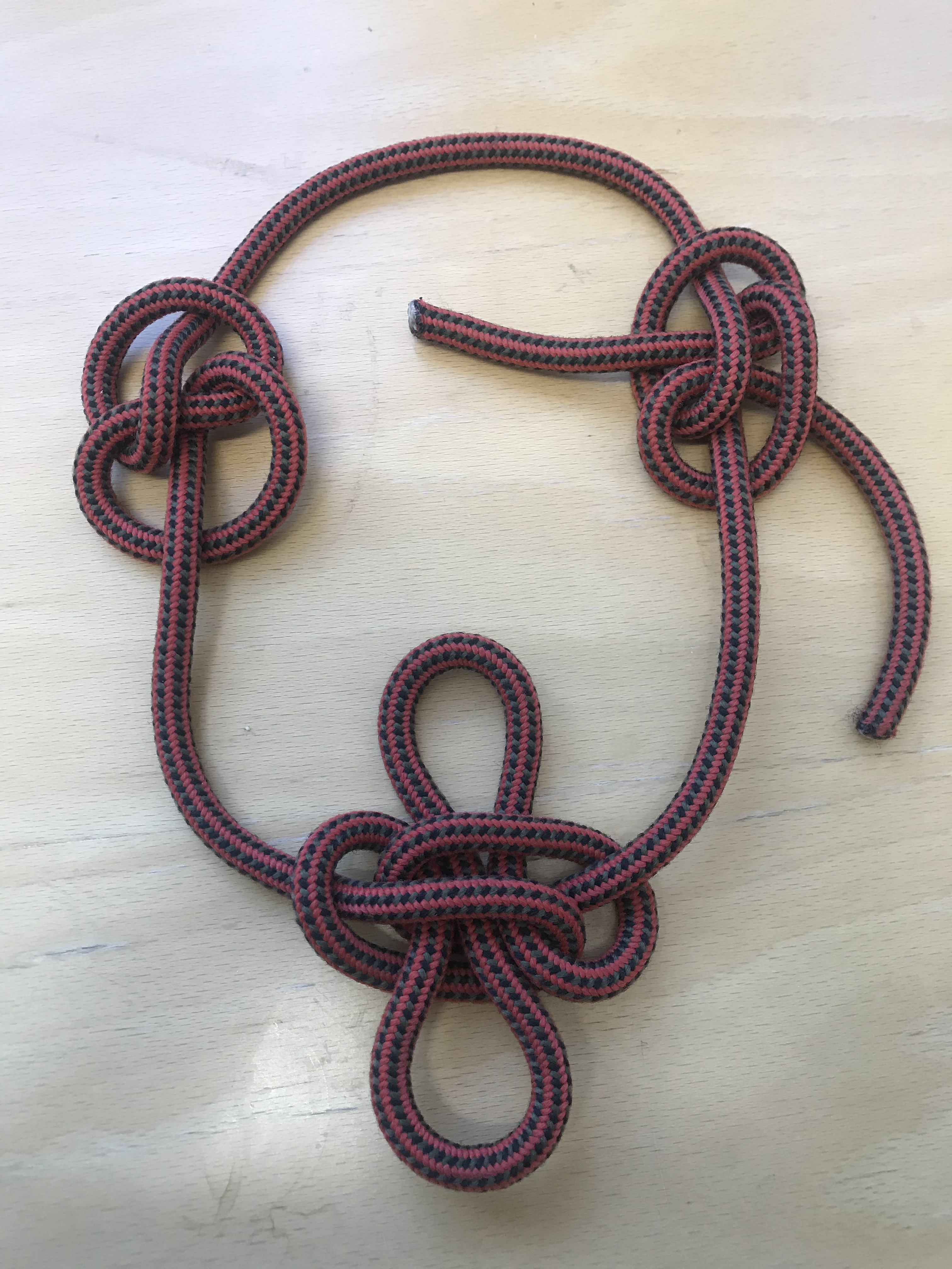 ABOK #582 ("a lanyard knot" or Blimp knot) tied in bight on a loop closed by Zeppelin bend. Notice the similarity; The blimp knot is as if a Zeppelin bends ends are fused into the same central rope section crossing two loops. The additional ABOK #582 tied in the same bight (in the middle below) has a Z or S folded central rope section that makes it look like a double slipped zeppelin bend. This new knot will hold even if there is a weak spot on the central folded part.